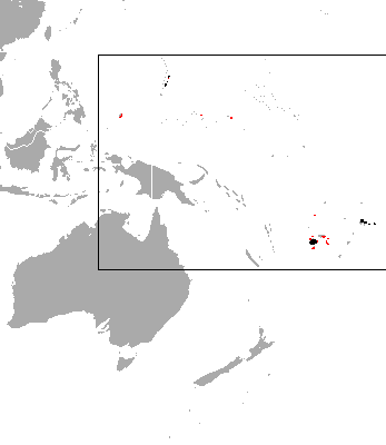 Pacific Sheath-Tailed Bat (Emballonura semicaudata) range (red — extant, black — extinct)